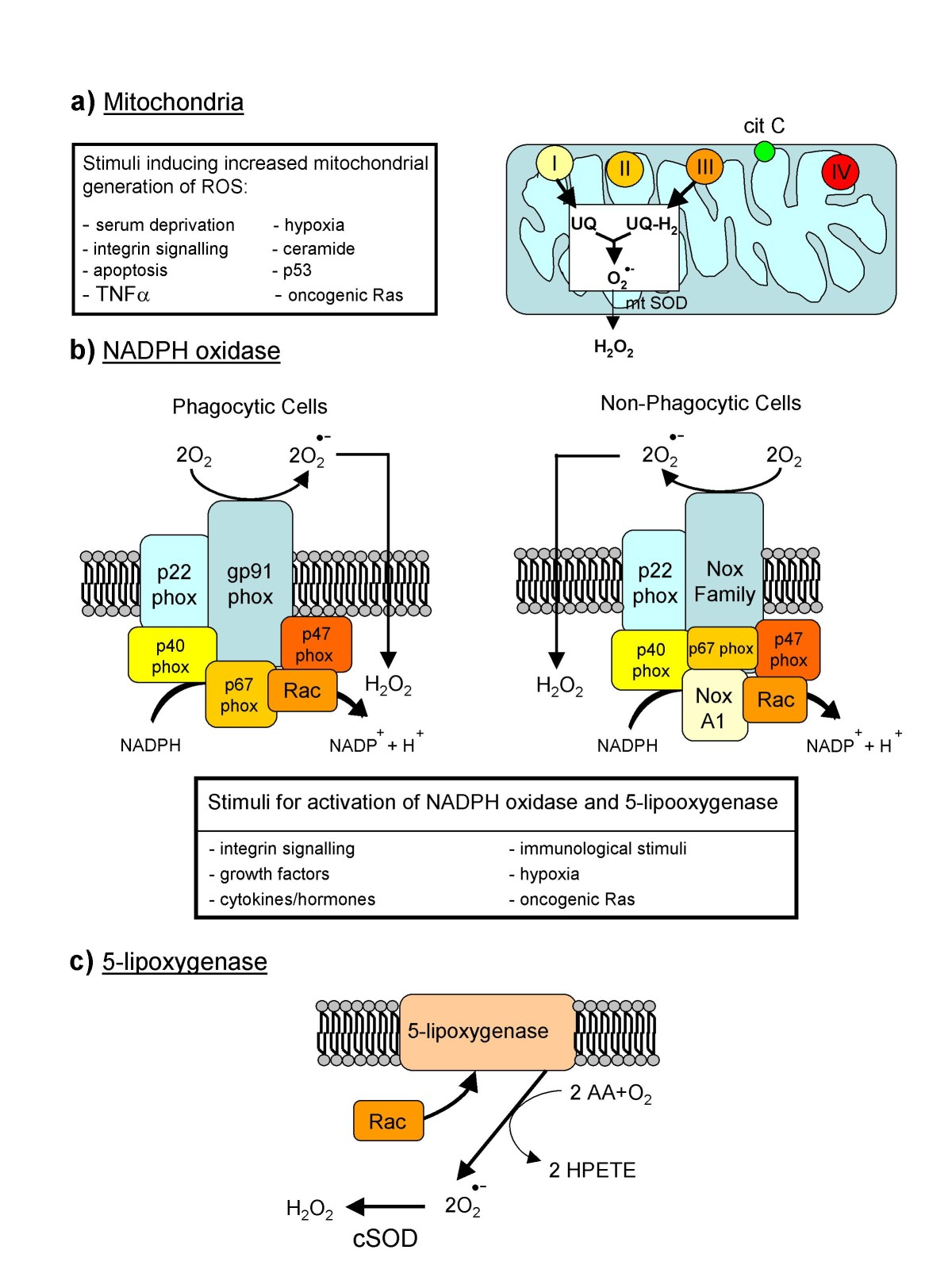 Major cellular sources of ROS in living cells. Novo and Parola Fibrogenesis & Tissue Repair 2008 1:5